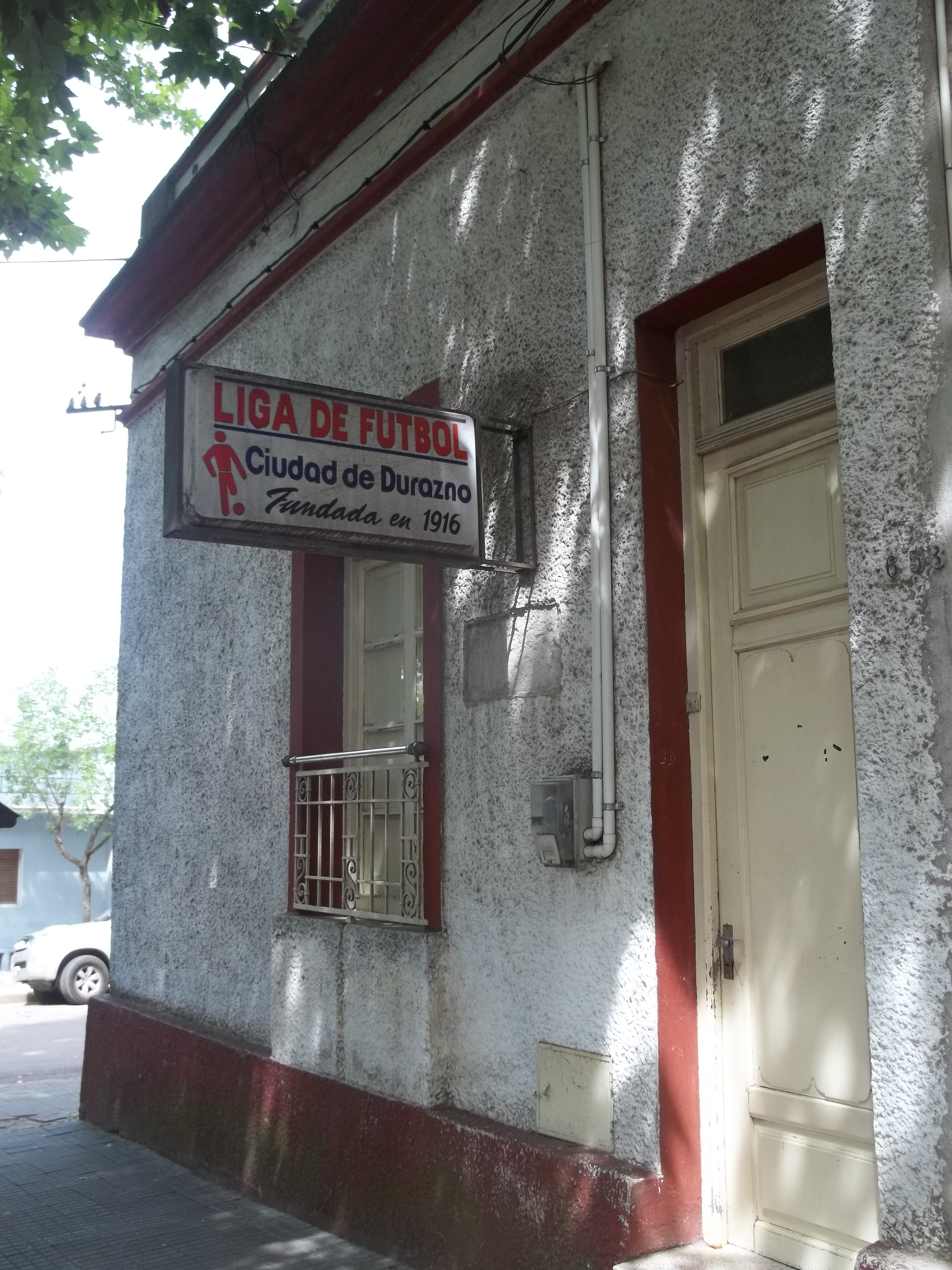 Edificio actual de la Liga Ciudad de Durazno